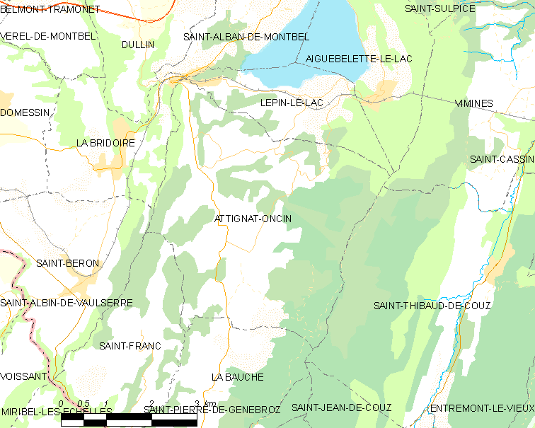 Map of French municipality